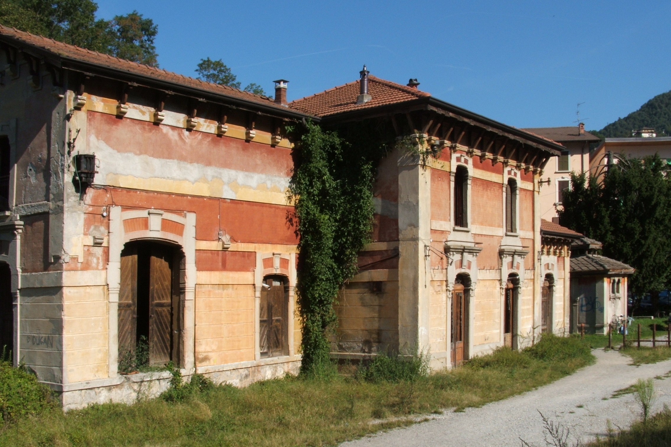 Old train station of Ambria, Zogno, Bergamo, Italy